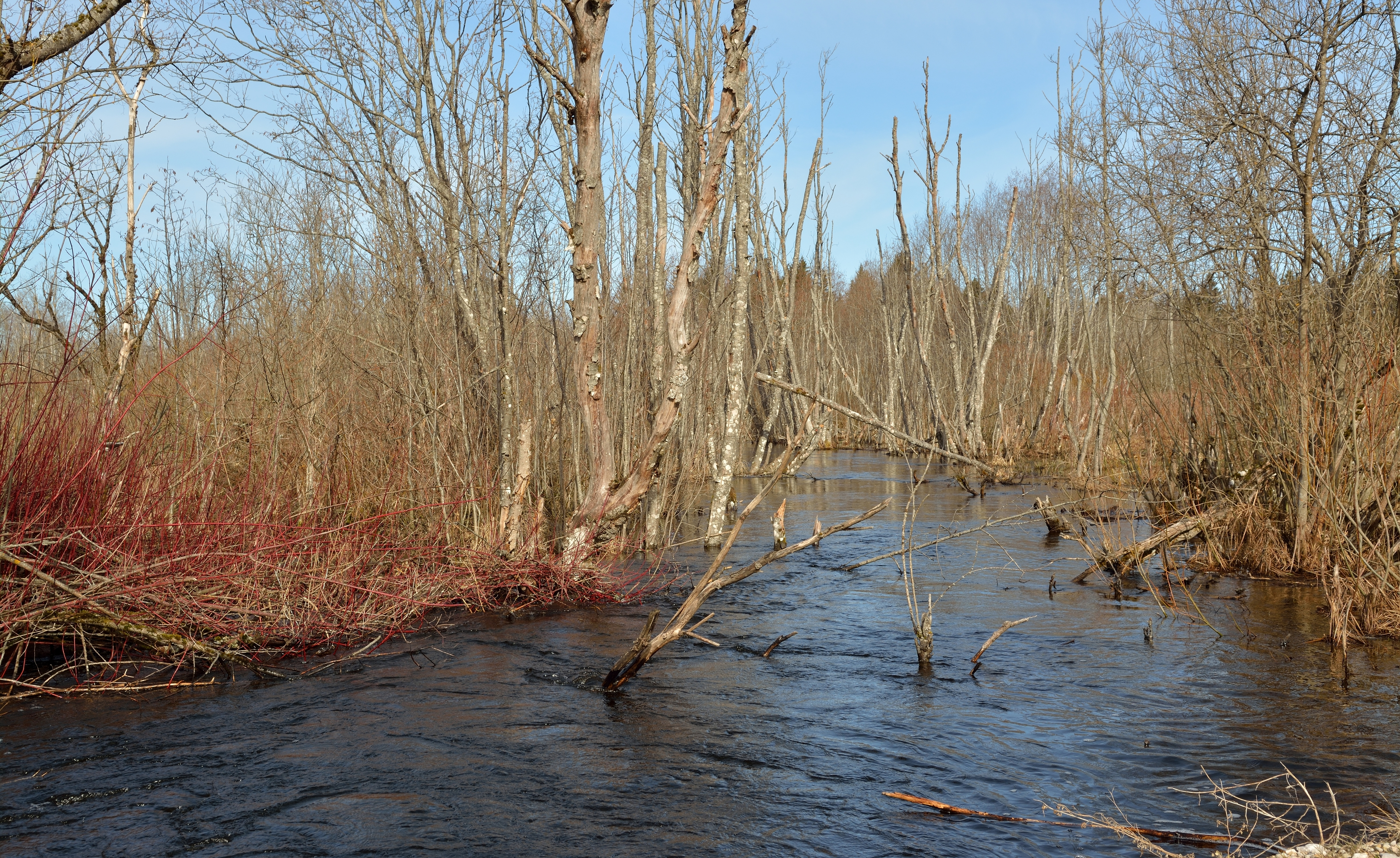 Angerja stream